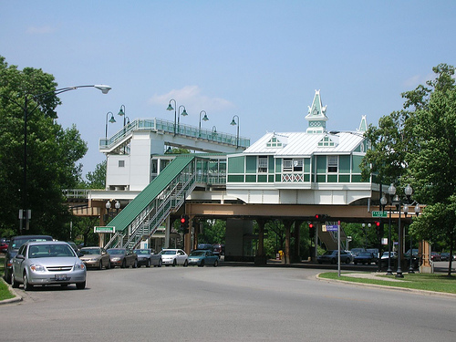 Conservatory-Central Park Drive CTA station.